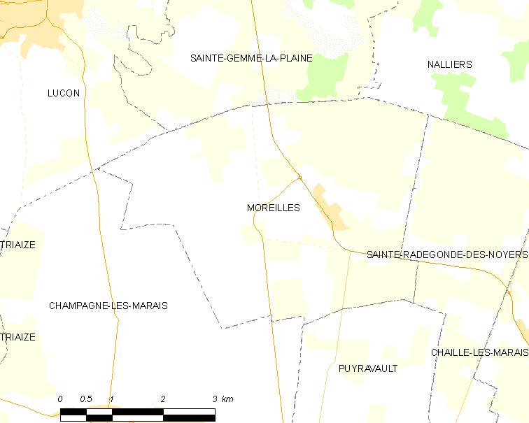 Map of French municipality Moreilles